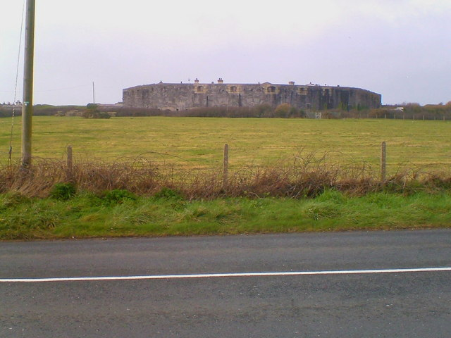 Tregantle Fort, Cornwall. Part of the fort near the viewpoint carpark.